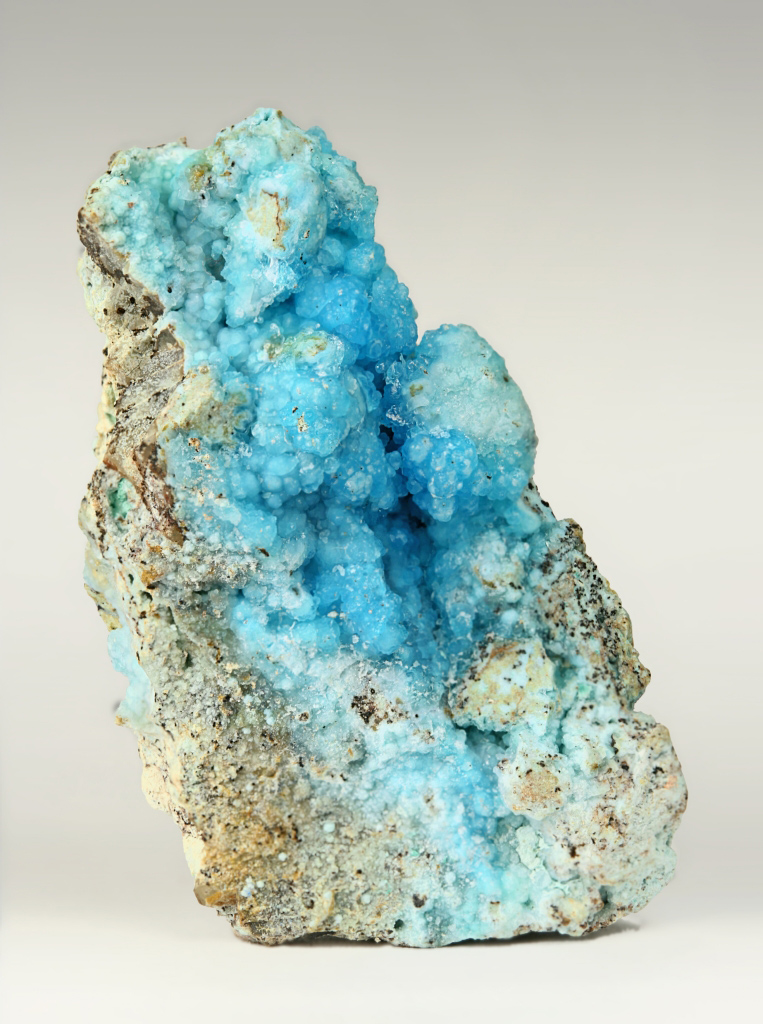 Allophane (Size ~ 3 cm) Locality: Maid of Sunshine Mine, Turquoise District (Courtland-Gleeson District), Dragoon Mts, Cochise County, Arizona, USA